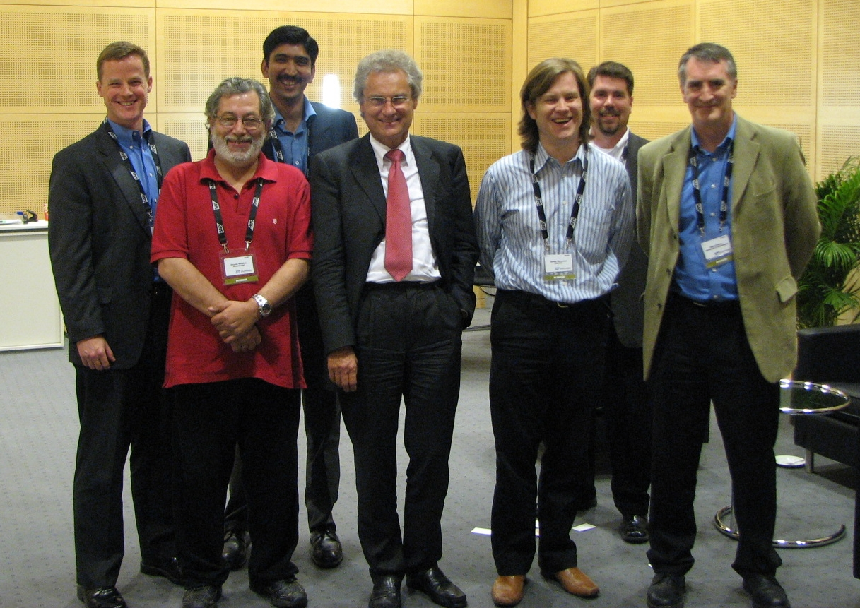 Left to right - Charlie Wood, Dennis Howlett, Prashanth Rai, Henning Kagermann (SAP CEO), James Governor, Mike Prosceno (SAP Global PR), David Terrar - 5 Bloggers and the SAP top man, plus the PR guy who set up the meeting. No other Enterprise Software company gives this kind of access to the blogger community.